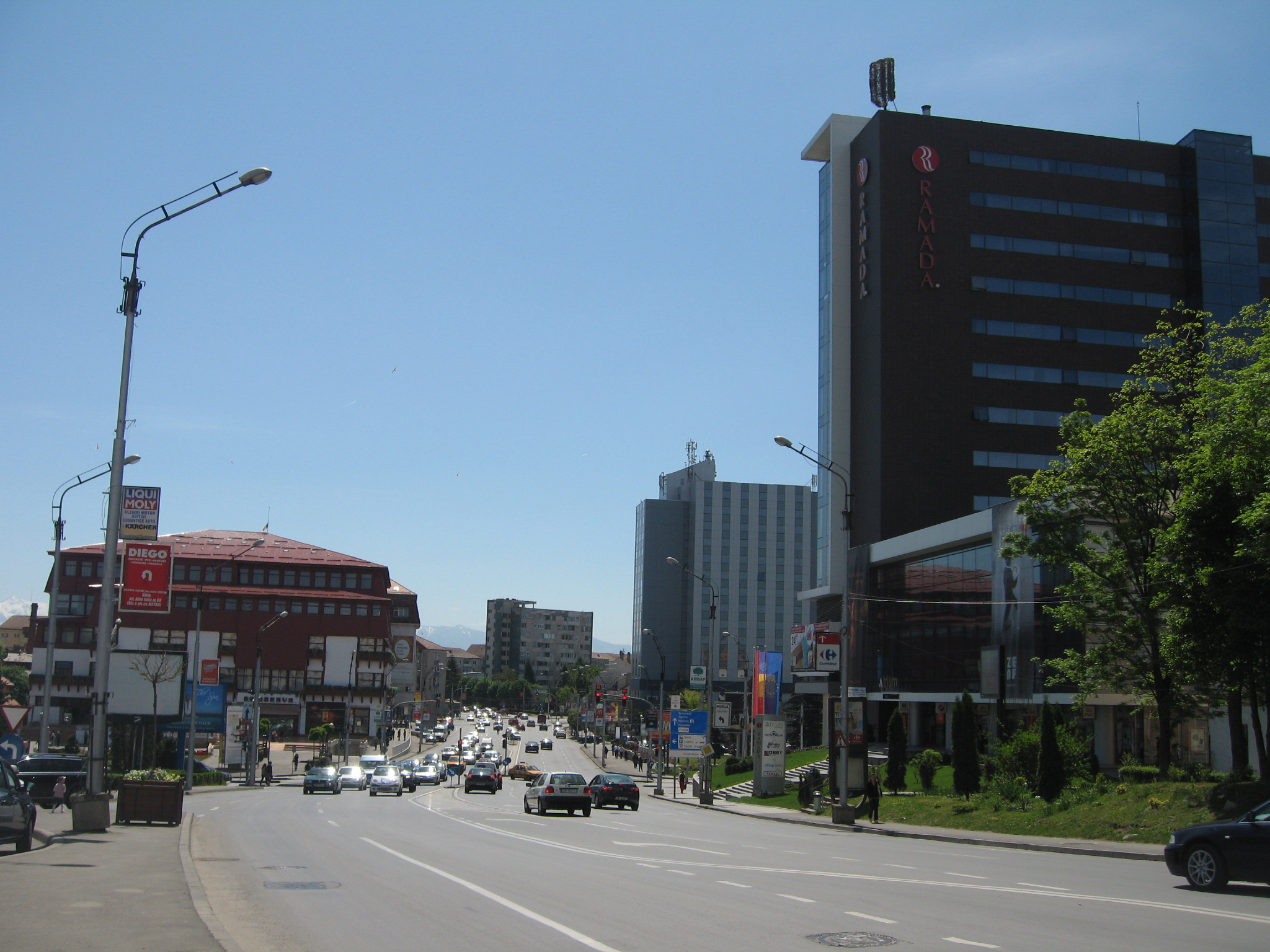 Street in Sibiu : on the right, Ramada and Hotel Ibis ; on the left : Dumbrava Store